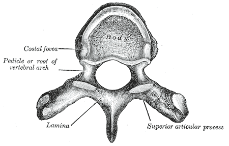 Thoracic vertebra as seen from top.